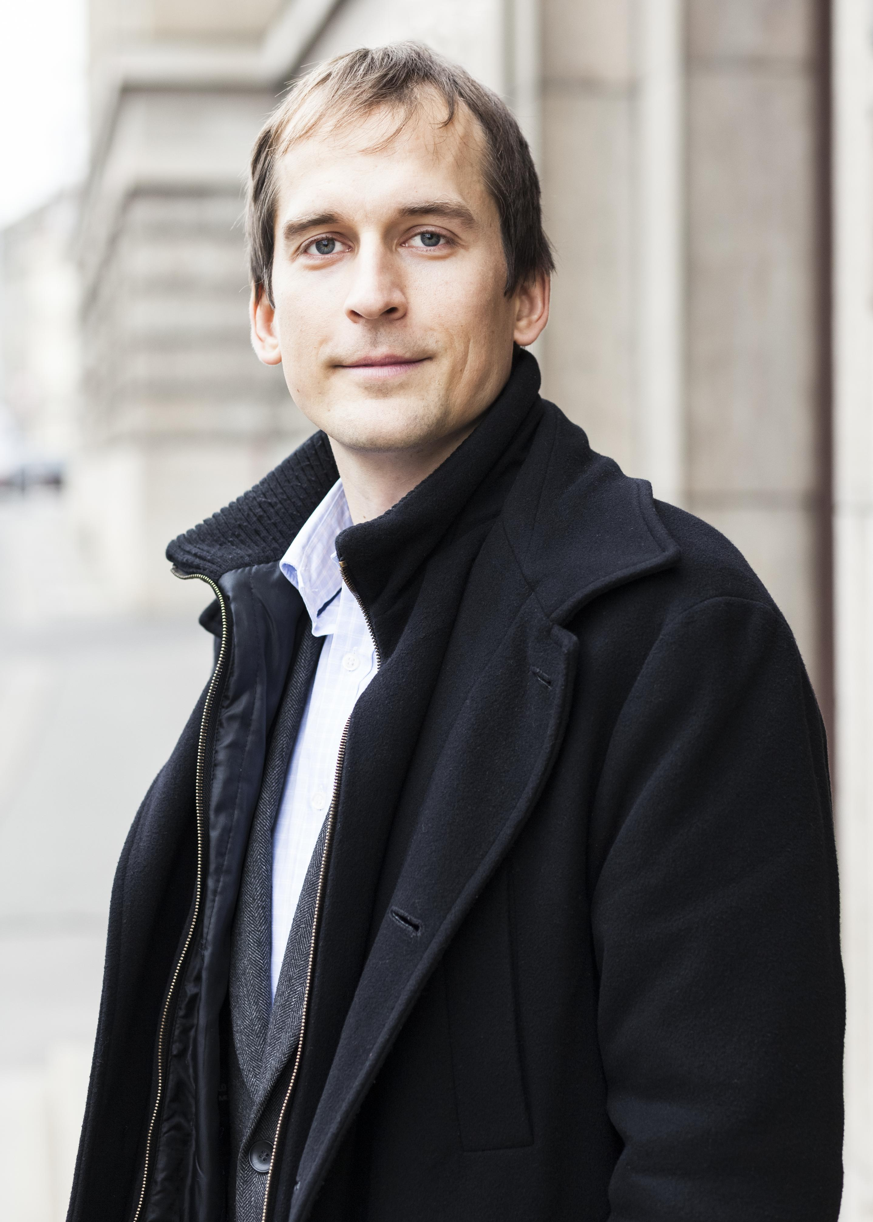 Jan Čižinský, the Mayor of Prague 7 – a city part of Prague, Czech Republic